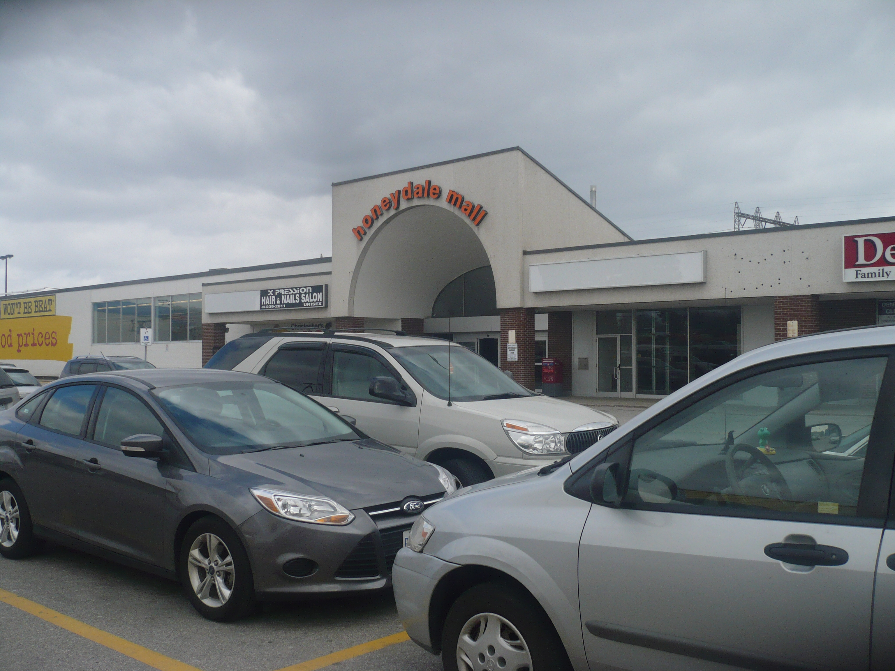 A shot of the exterior of Etobicoke's Honeydale Mall